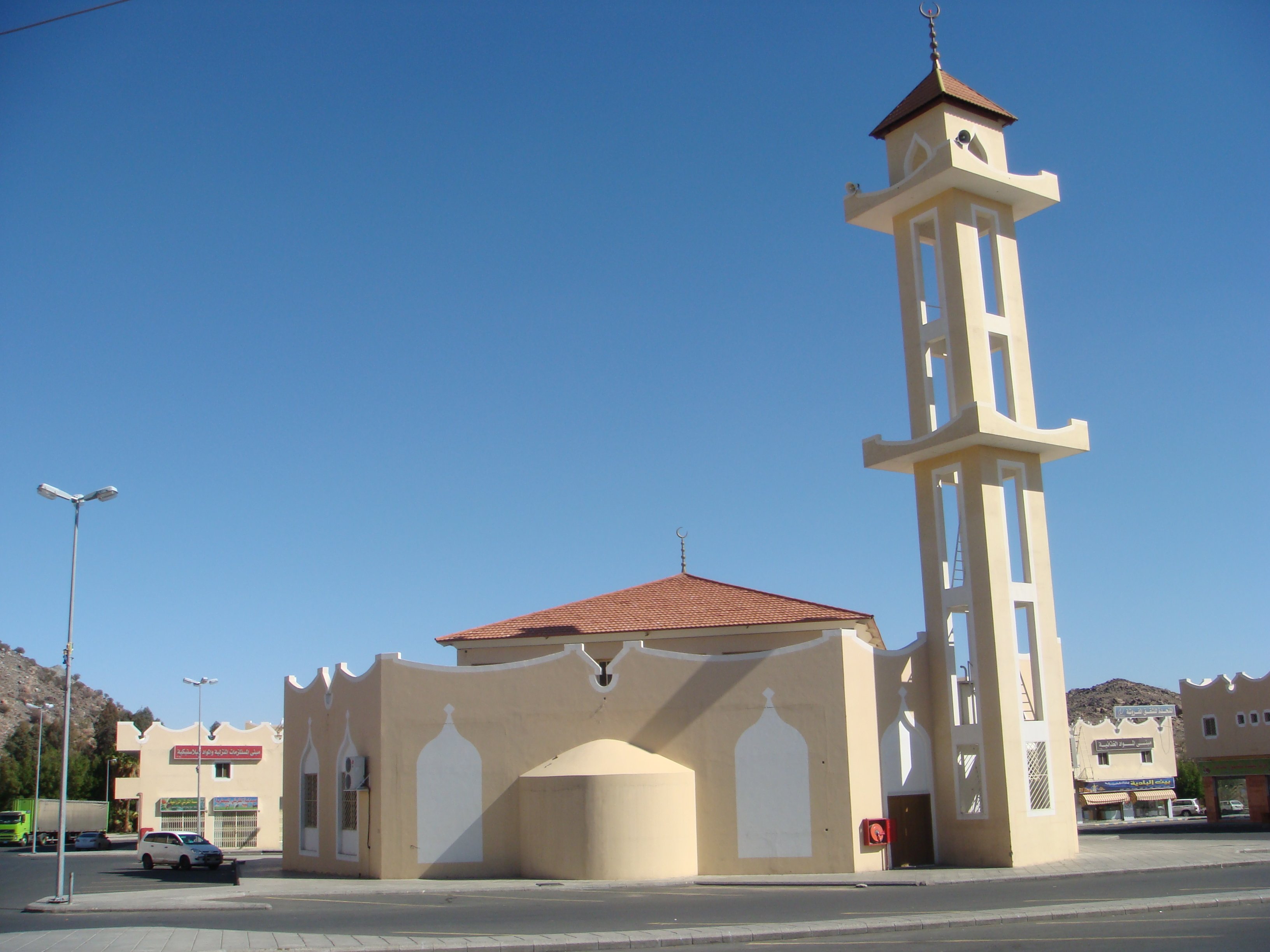 A Mosque in Taif 2010